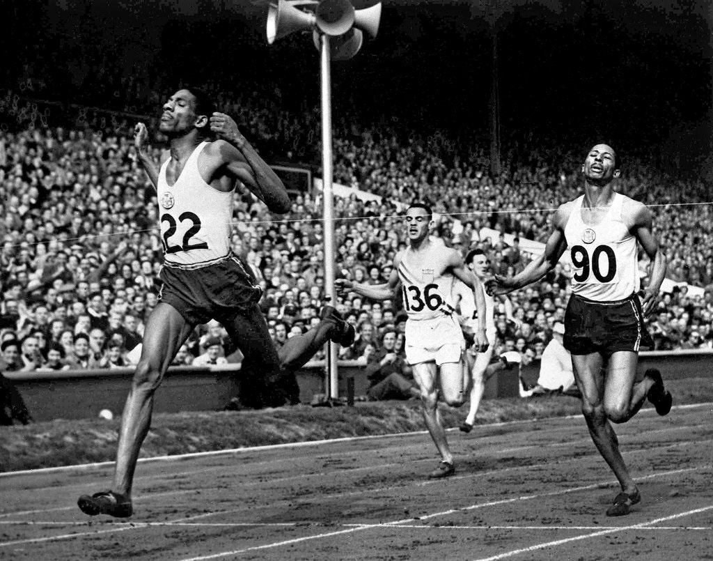 1948 Press Photo Jamaica's runner Arthur Wint wins 400-meter Olympic Games run